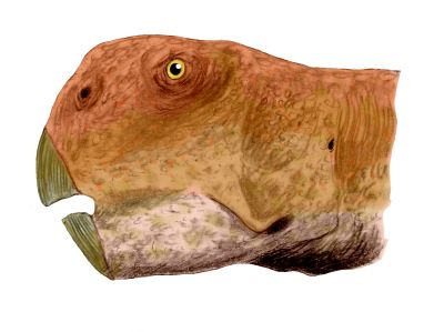 Head of Psittacosaurus neimongoliensis, one of the numerous species of Psittacosaur from the Early Cretaceous of China, pencil drawing